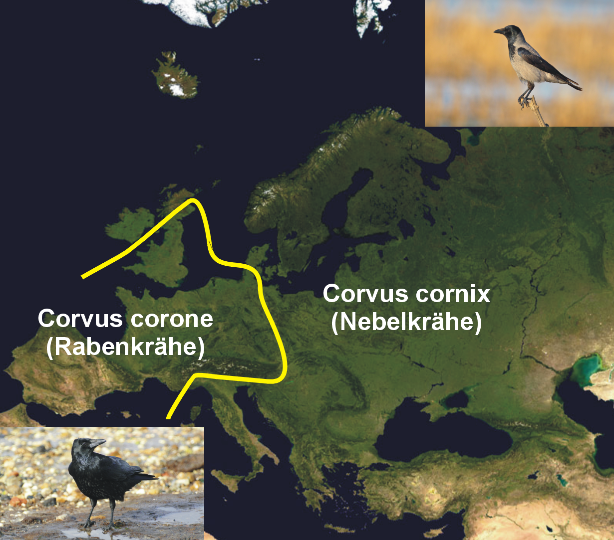 Distribution map Corvus corone and C. corvix